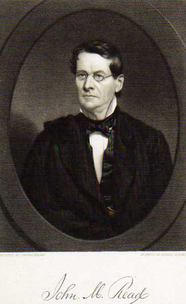 Line drawing of justice John M. Read